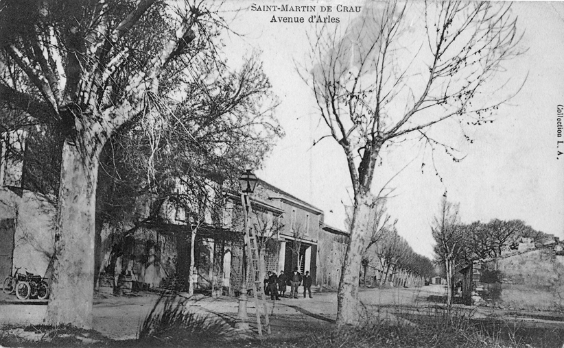 Old postcard of Saint-Martin-de-Crau's main street. Provence. France. Scanned and cleaned by Malost.